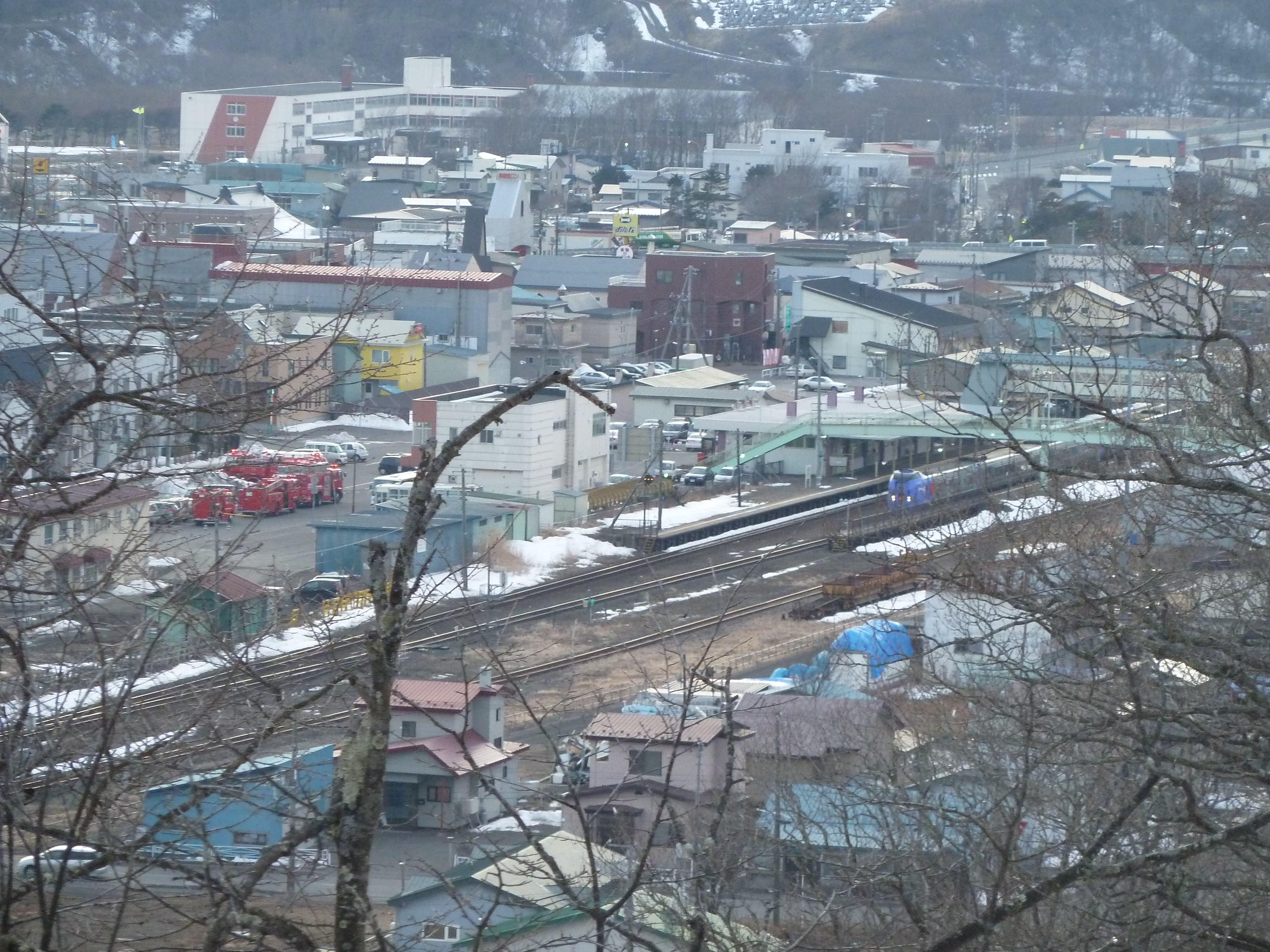 Distant view of Shiranuka Station, Hokkaido, hours after the 2011 Sendai earthquake. The train at the station is the limited express train Super Ozora No. 5, which was halted by the tsunami alert.